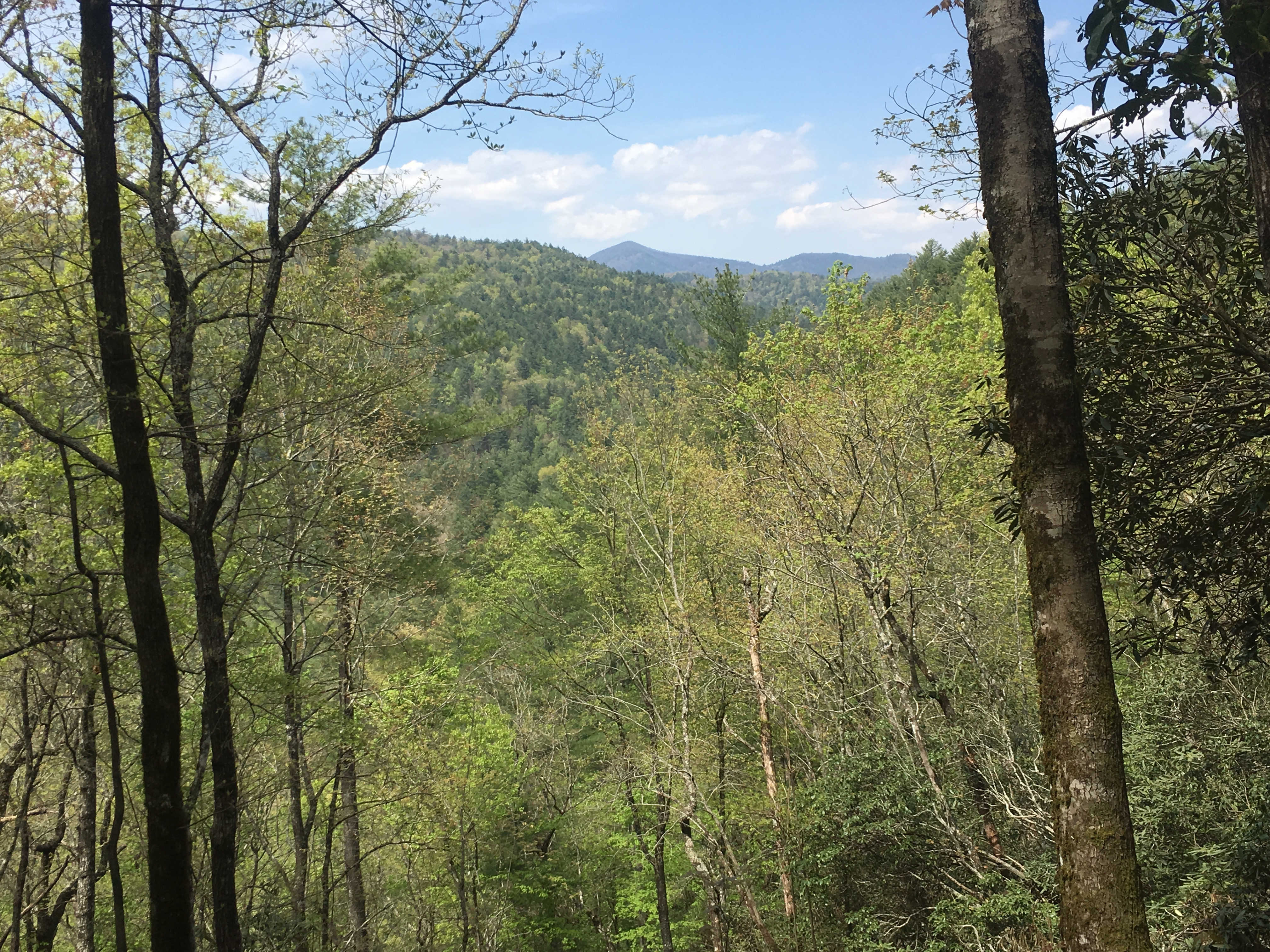 View of Ellicott Rock Wilderness on the Foothills Connector Trail.